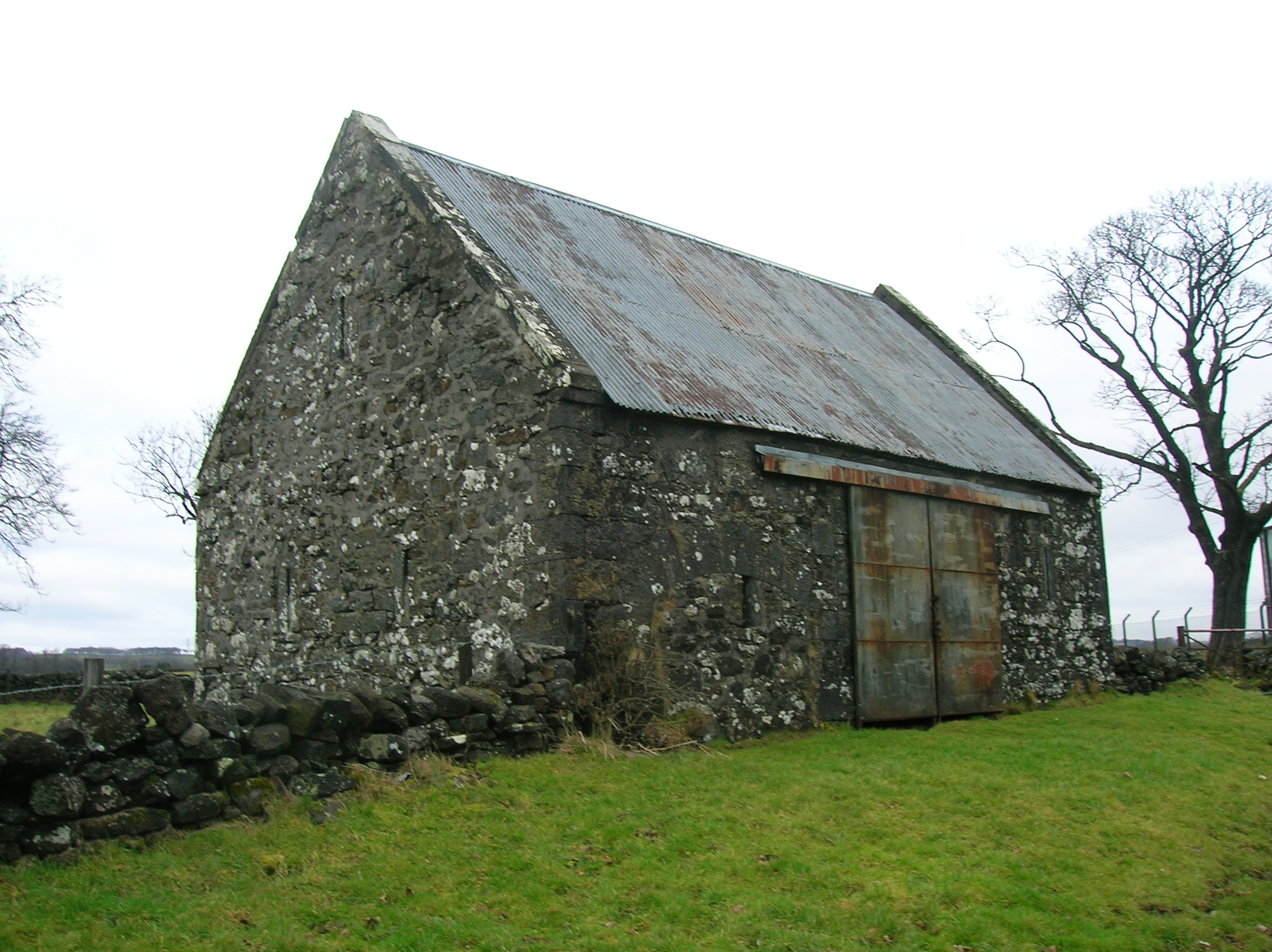 Balgray Farm byre seen from the south. Barrmill, North Ayrshire, Scotland.